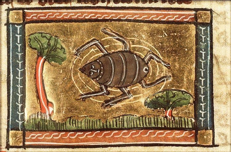 Six-legged spider (Aranea) in a medieval bestiary.